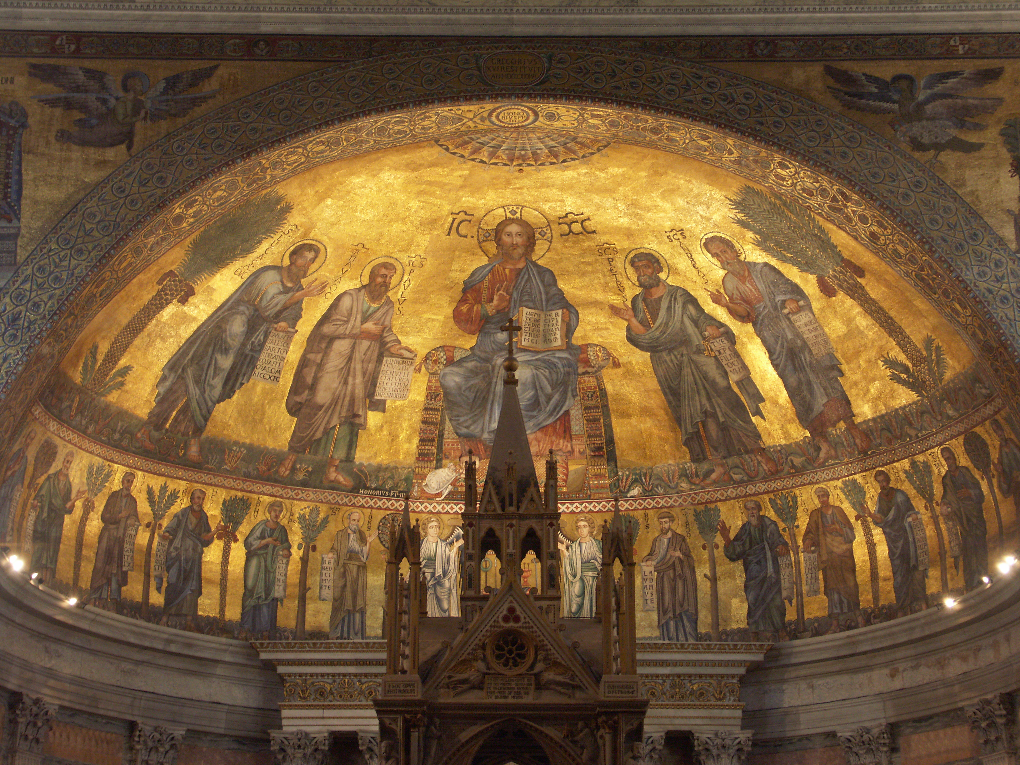 Rom, Interior of Basilica of Saint Paul Outside the Walls